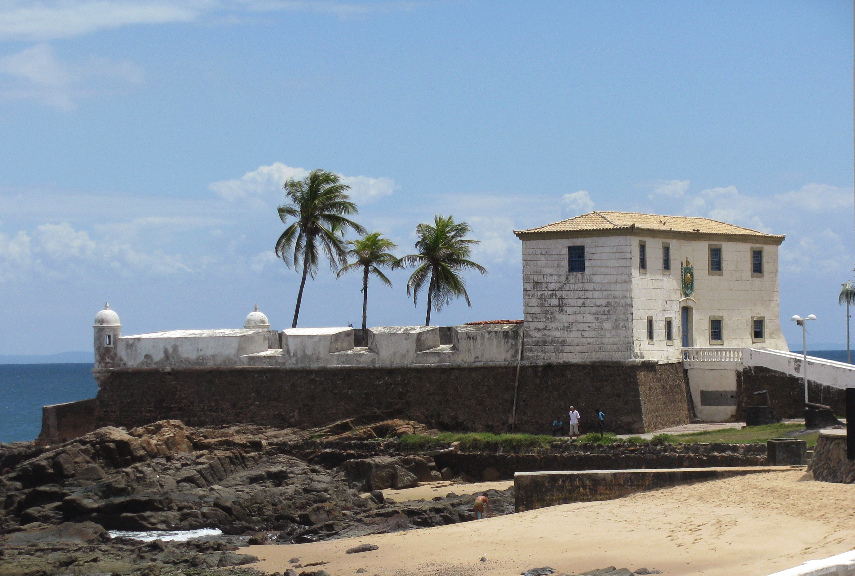 Santa Maria Fortress in Salvador, Bahia, Brazil